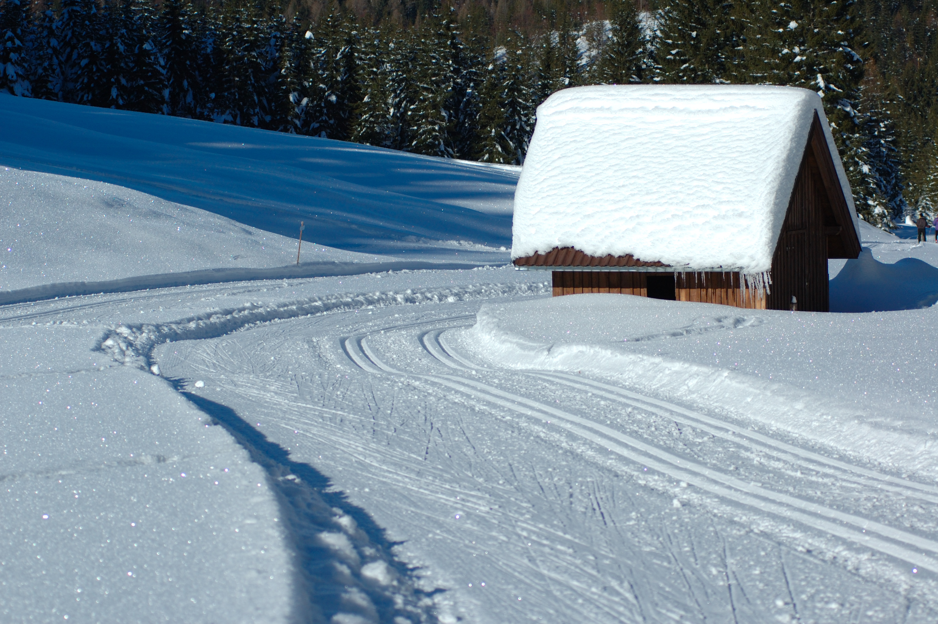 Gscheid near St. Aegyd am Neuwalde